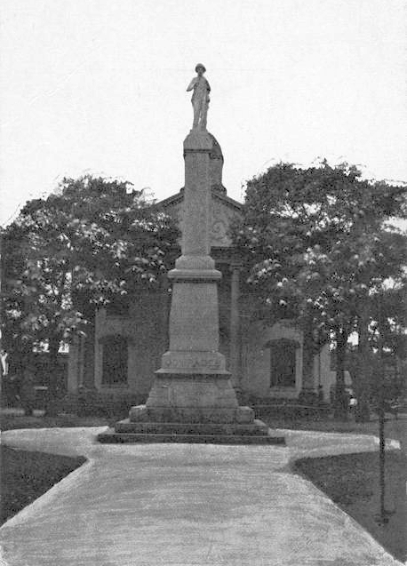 Barbour County Courthouse, Clayton, Alabama (circa 1900-1919).